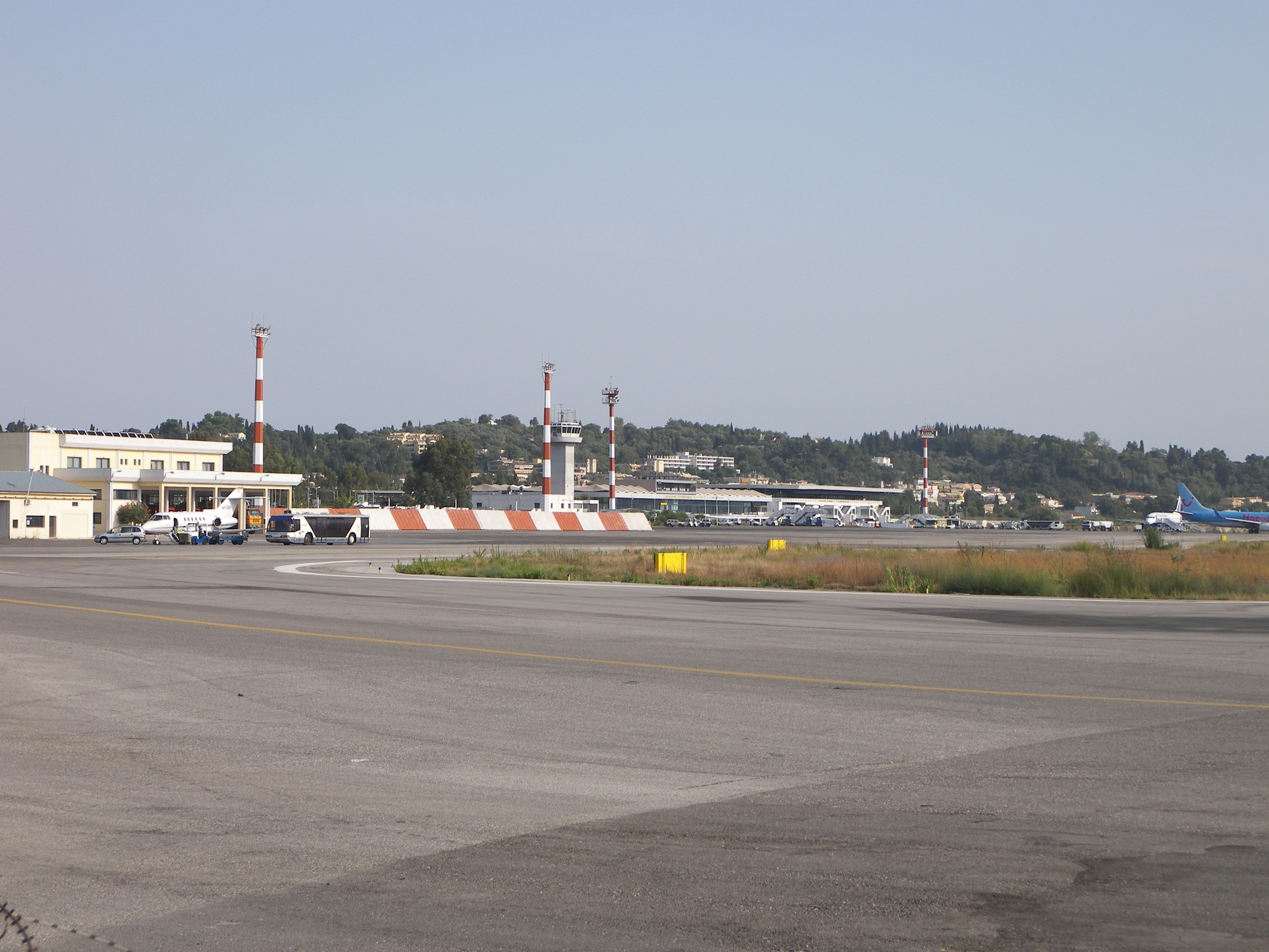 Filename